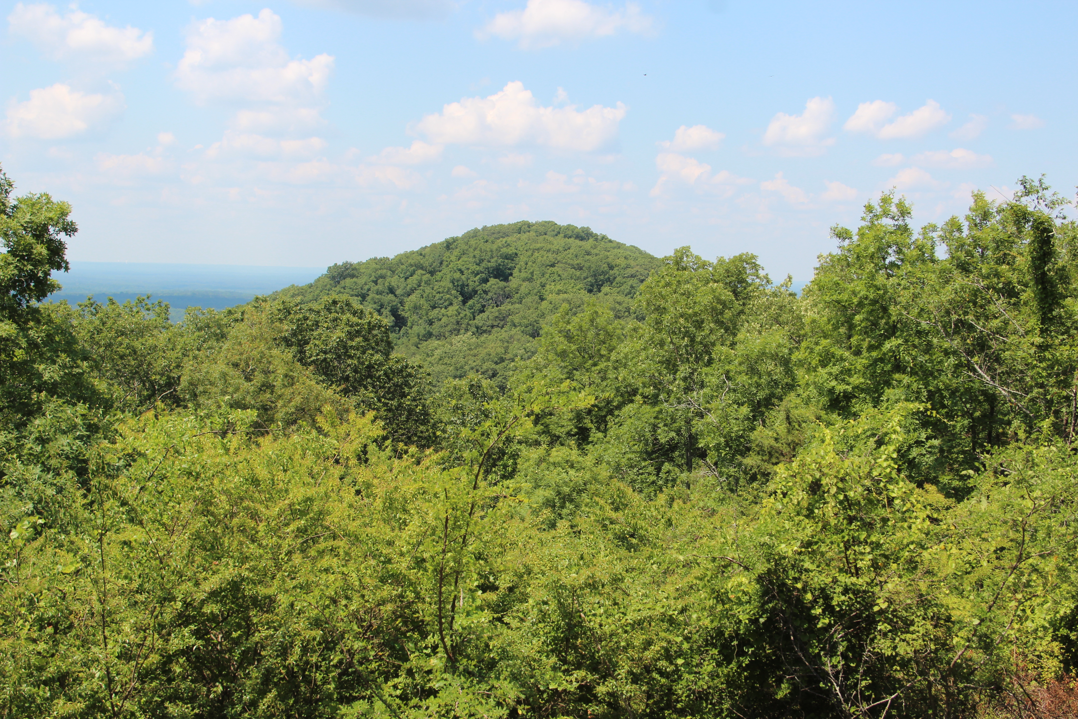 Little Kennesaw Mountain, viewed from Kennesaw Mountain